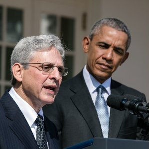 Merrick Garland on Fidelity to the Constitution and the Law